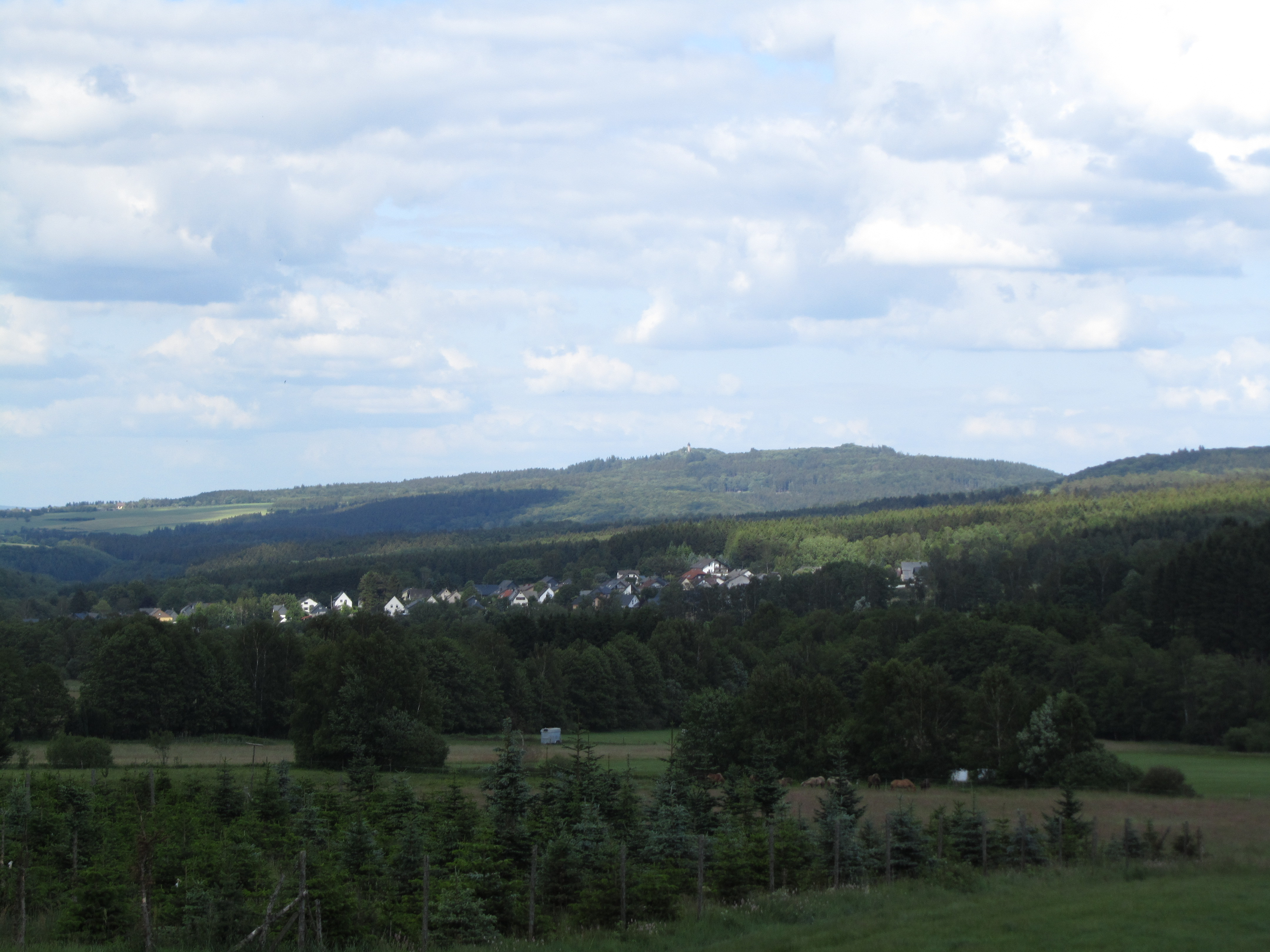 Der Wildenburger Kopf von Westsüdwest. Im Vordergrund Häuser von Allenbach.